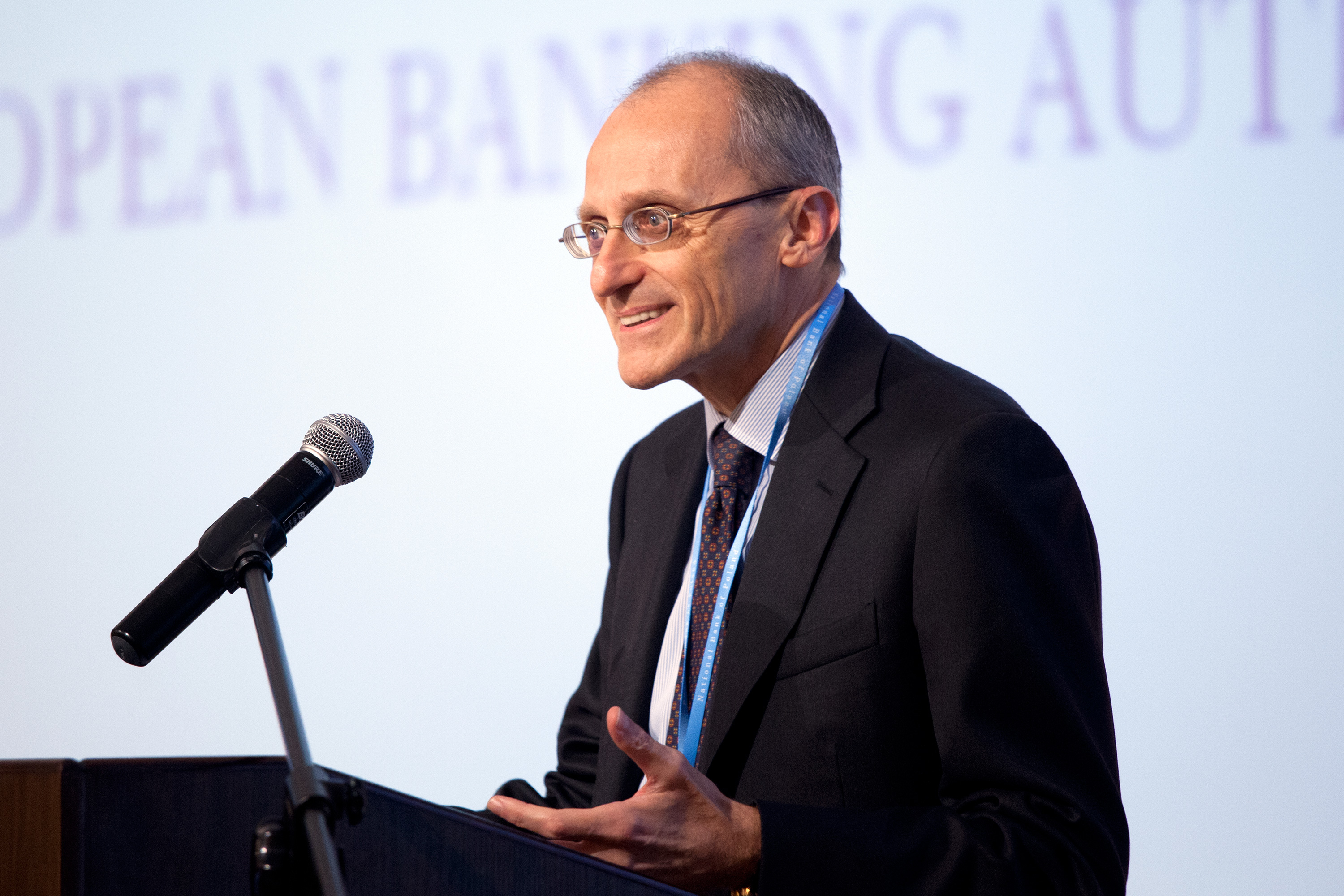 Andrea Enria, Chairman of European Banking Authority (EBA)